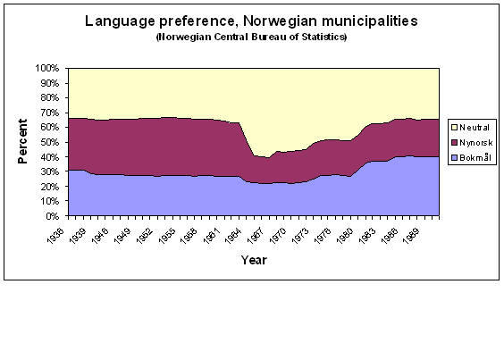 Preference for written languages by Norwegian municipality 1936-1991. Source: Norwegian Central Bureau of Statistics.